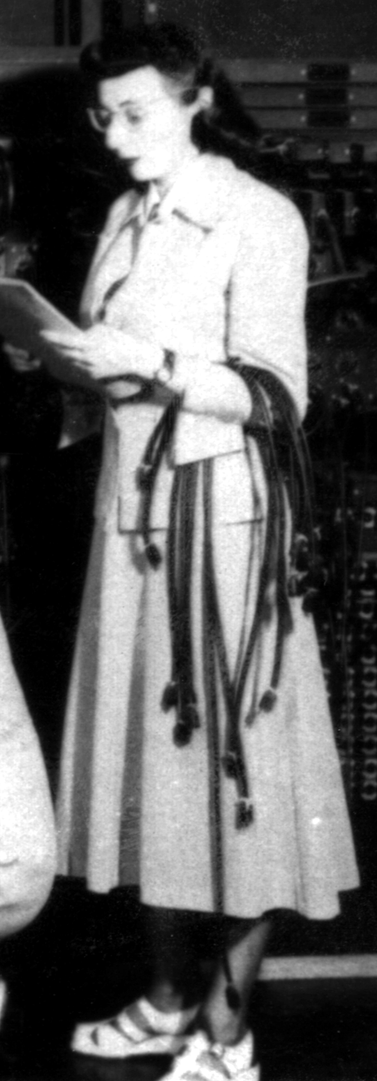 Marlyn Meltzer, working on ENIAC